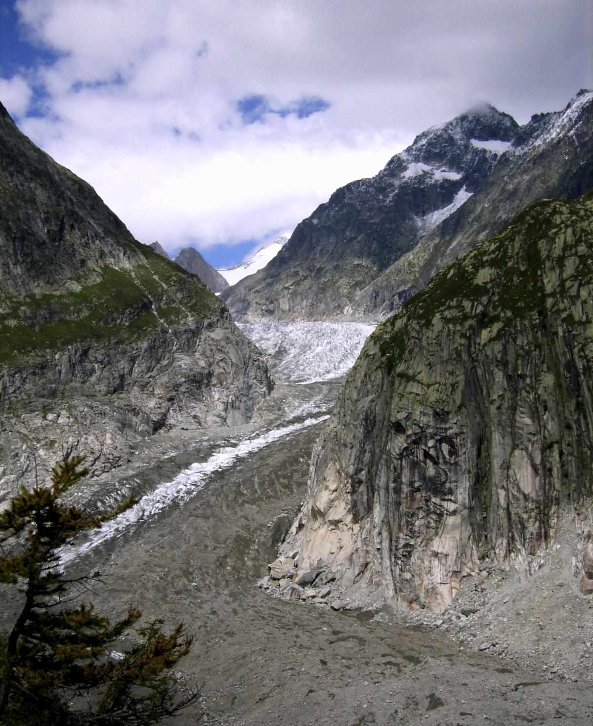 Fiescher glacier (near Fiesch, Valais), Bernese Alps